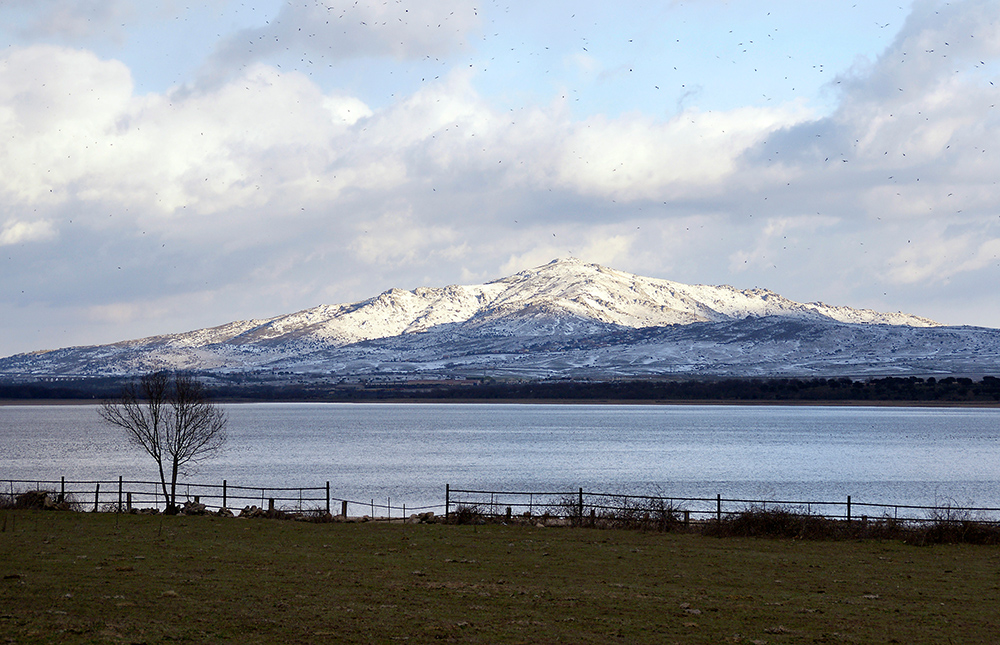 Embalse de Santillana con las montañas nevadas en Manzanares el Real.